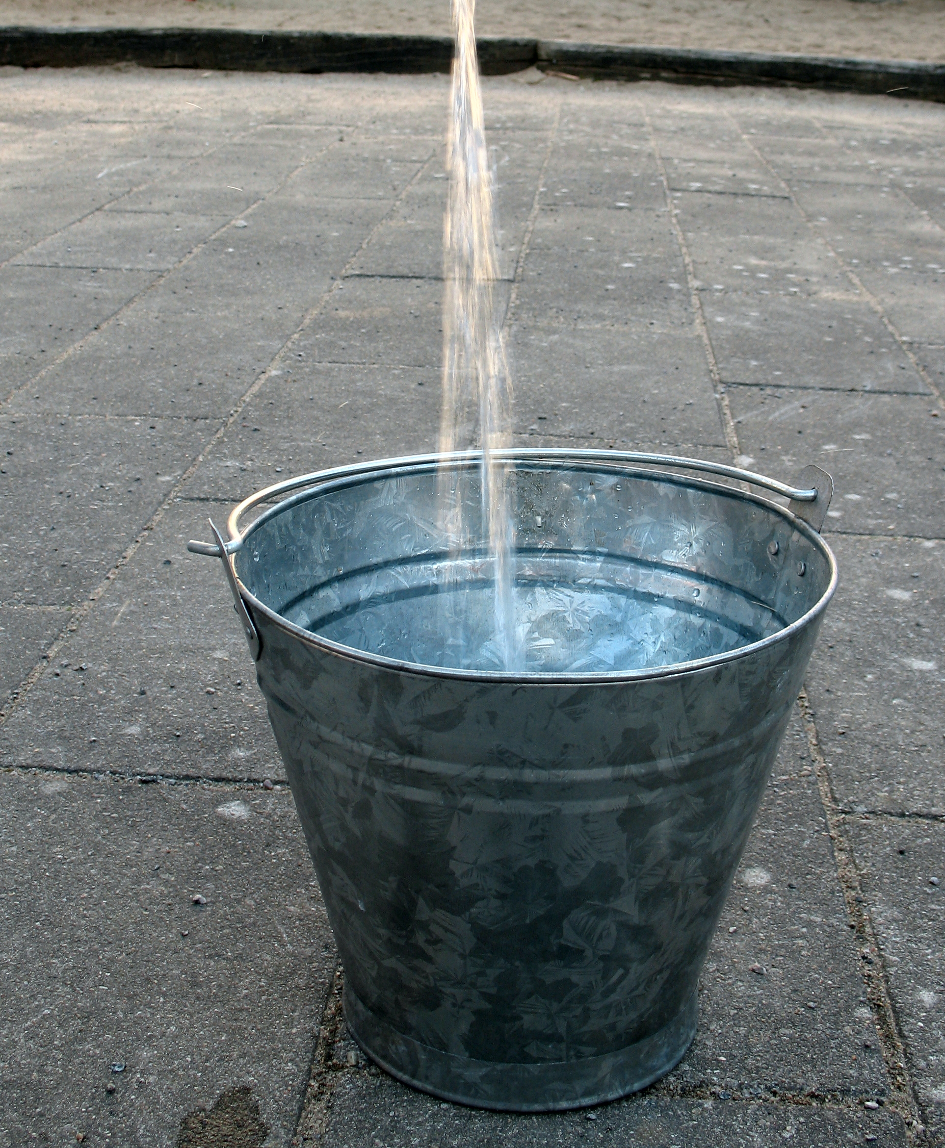 A metal bucket. Image taken on 2007-04-12 in Lund, Sweden.